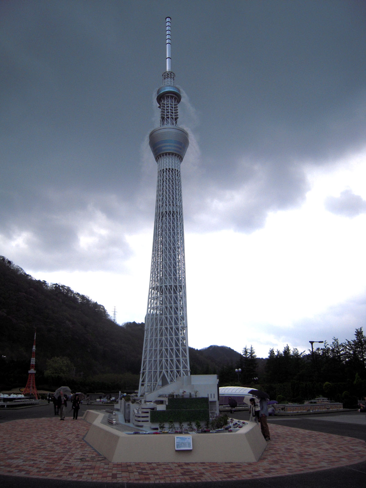 The 1/25 scale miniature Tokyo Sky Tree in Tobu World Square (Tochigi pref, Japan).